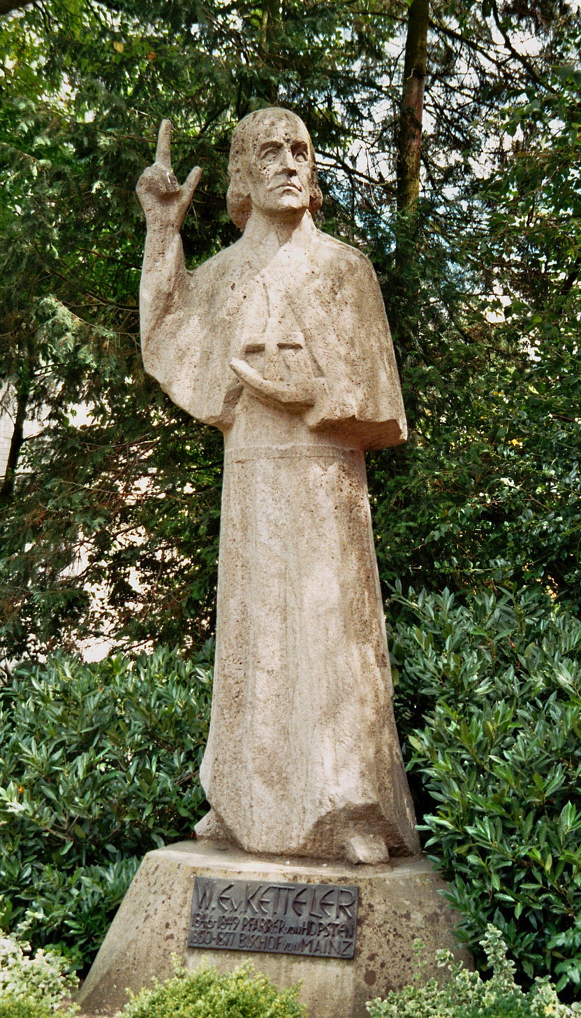 Statue of bishop Wilhelm Emanuel von Ketteler in Hopsten, Kreis Steinfurt, North Rhine-Westphalia, Germany. The memorial is a work of Joseph Krautwald.